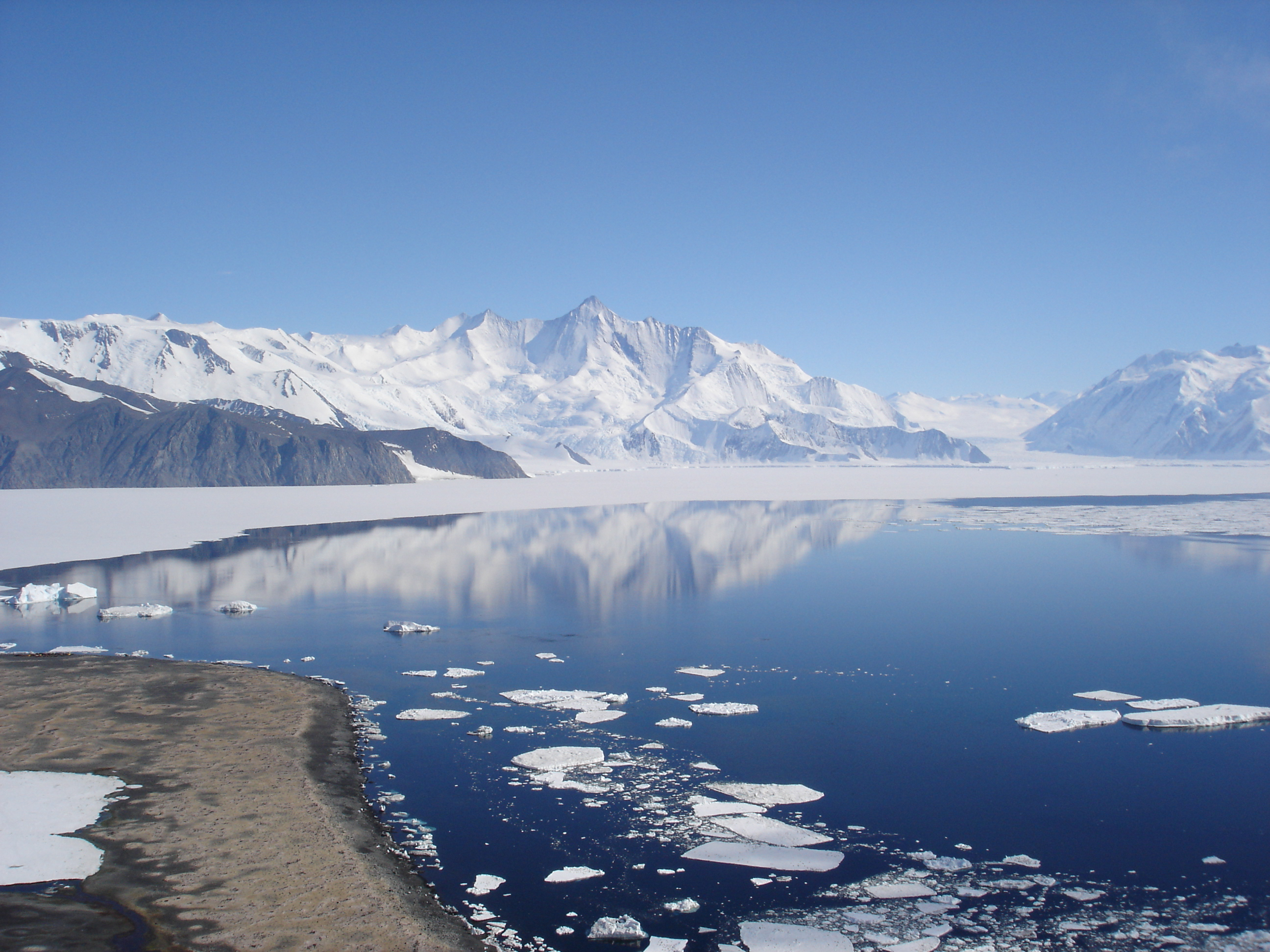 Mt Herschel (3335m asl) from Cape Hallet with Seabee Hook penguin colony in Foreground. Antarctica.